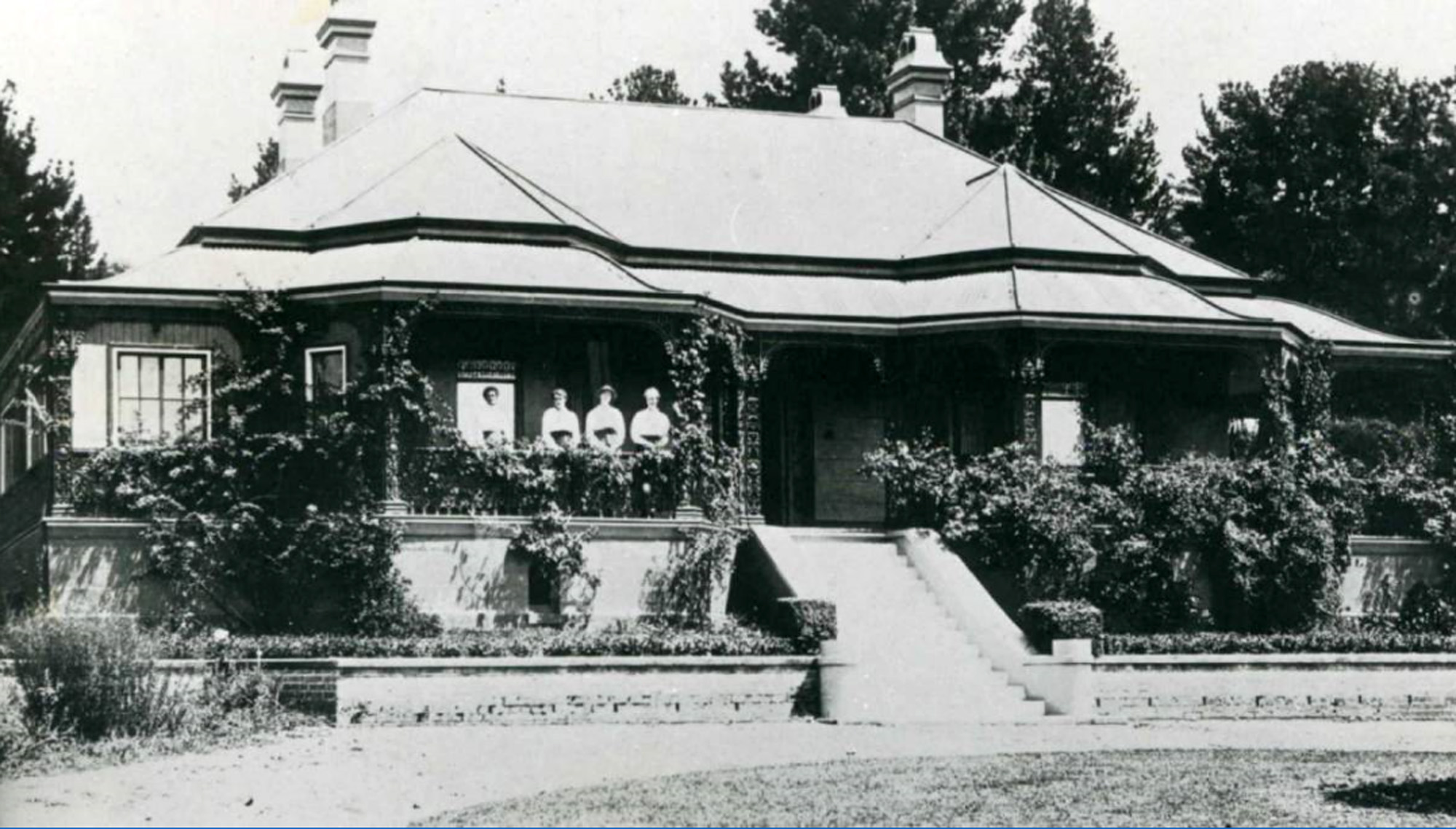 Craigieburn Bowral, New South Wales circa 1910